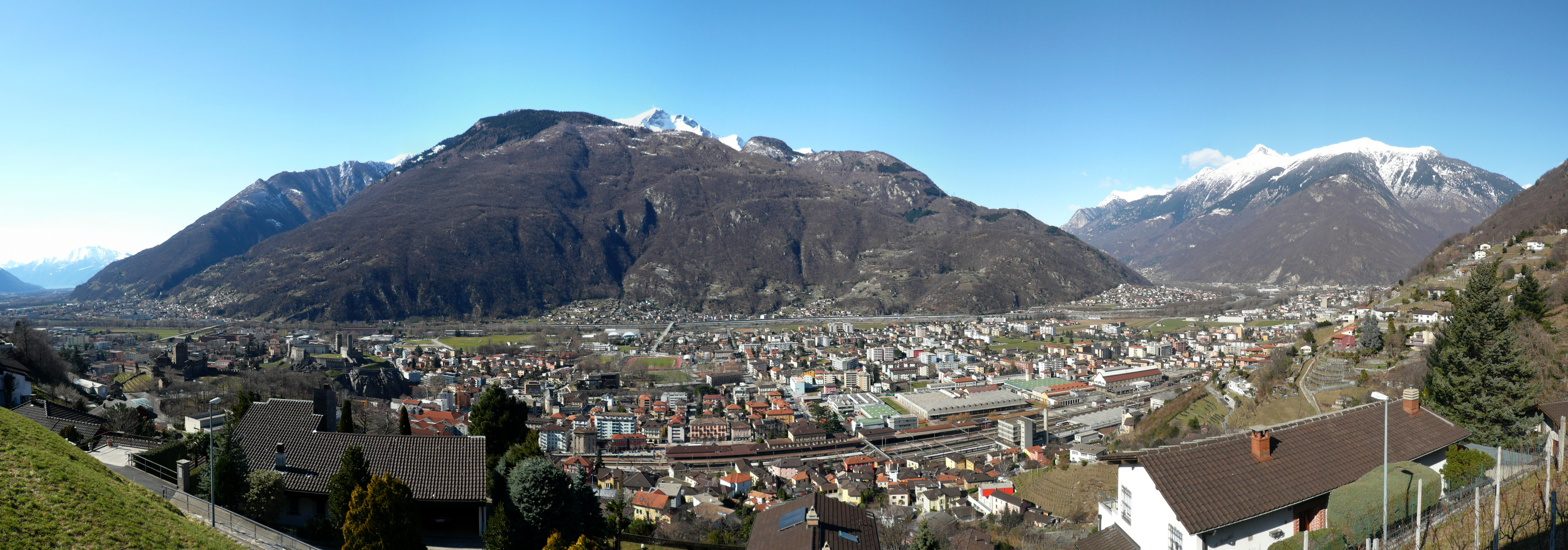 Panorama of Bellinzona, Switzerland